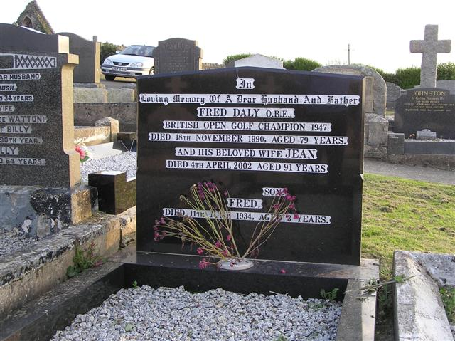 Fred Daly, OBE. A famous golfer who won the British Open Golf Championship in 1947 is buried here.